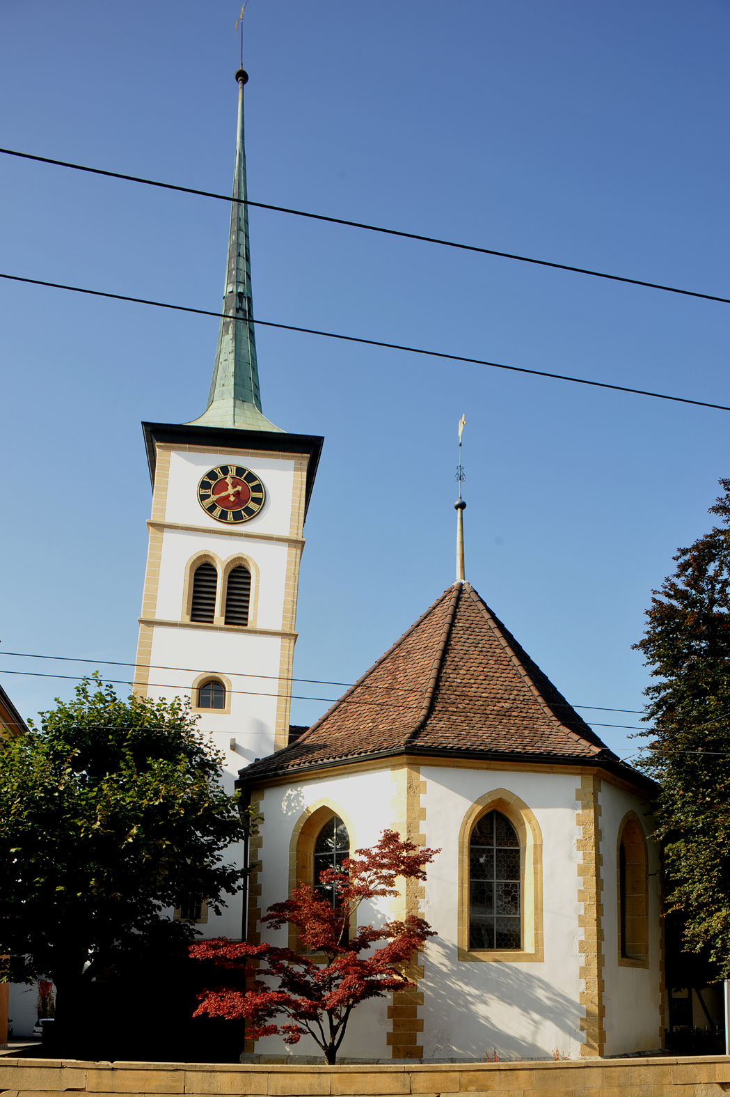 Church in Nidau; Berne, Switzerland.